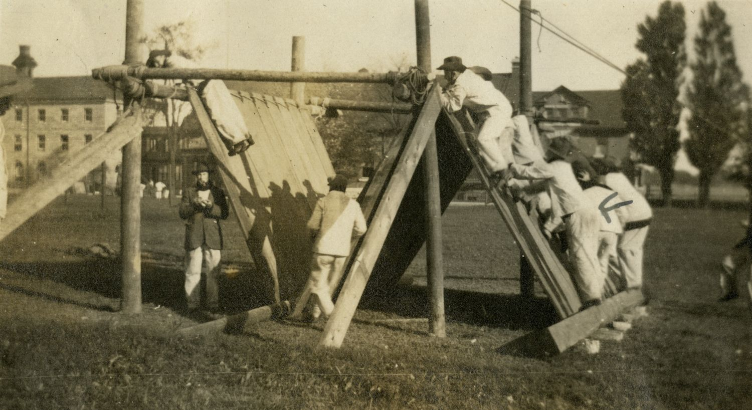 Obstacle-course training at the Royal Military College in Kingston, Ontario, Canada.